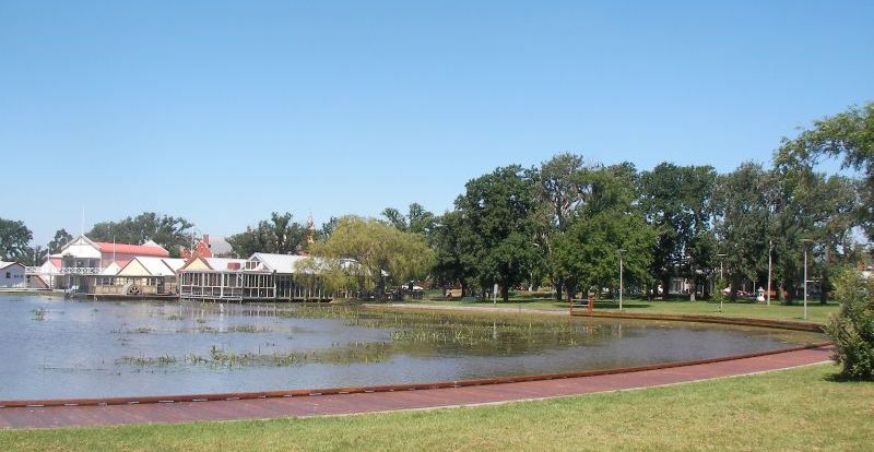 Lake Wendouree village from View Point